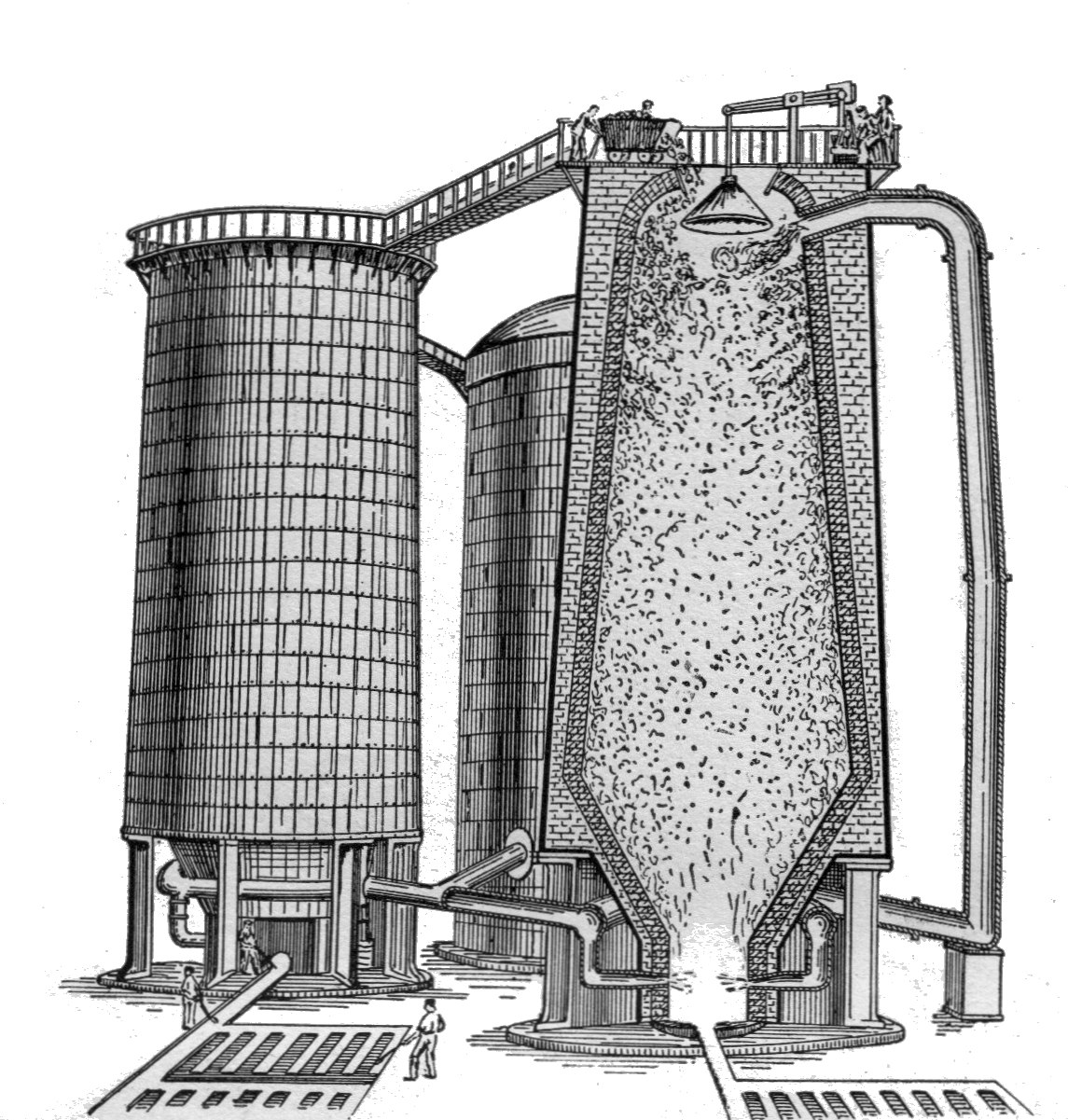 A Set of Modern Blast Furnaces Shown in Section In the centre background is the stove for heating the blast. Note the passage-way at top leading from one furnace to the other and to the stove.